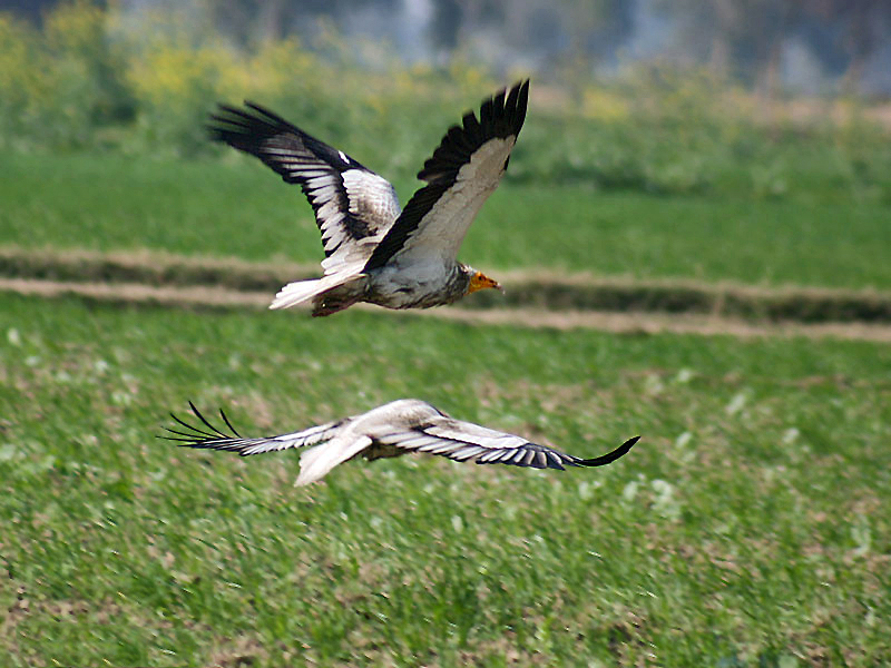 Egptian Vulture Neophron percnopterus at Hodal in Faridabad District of Haryana, India.